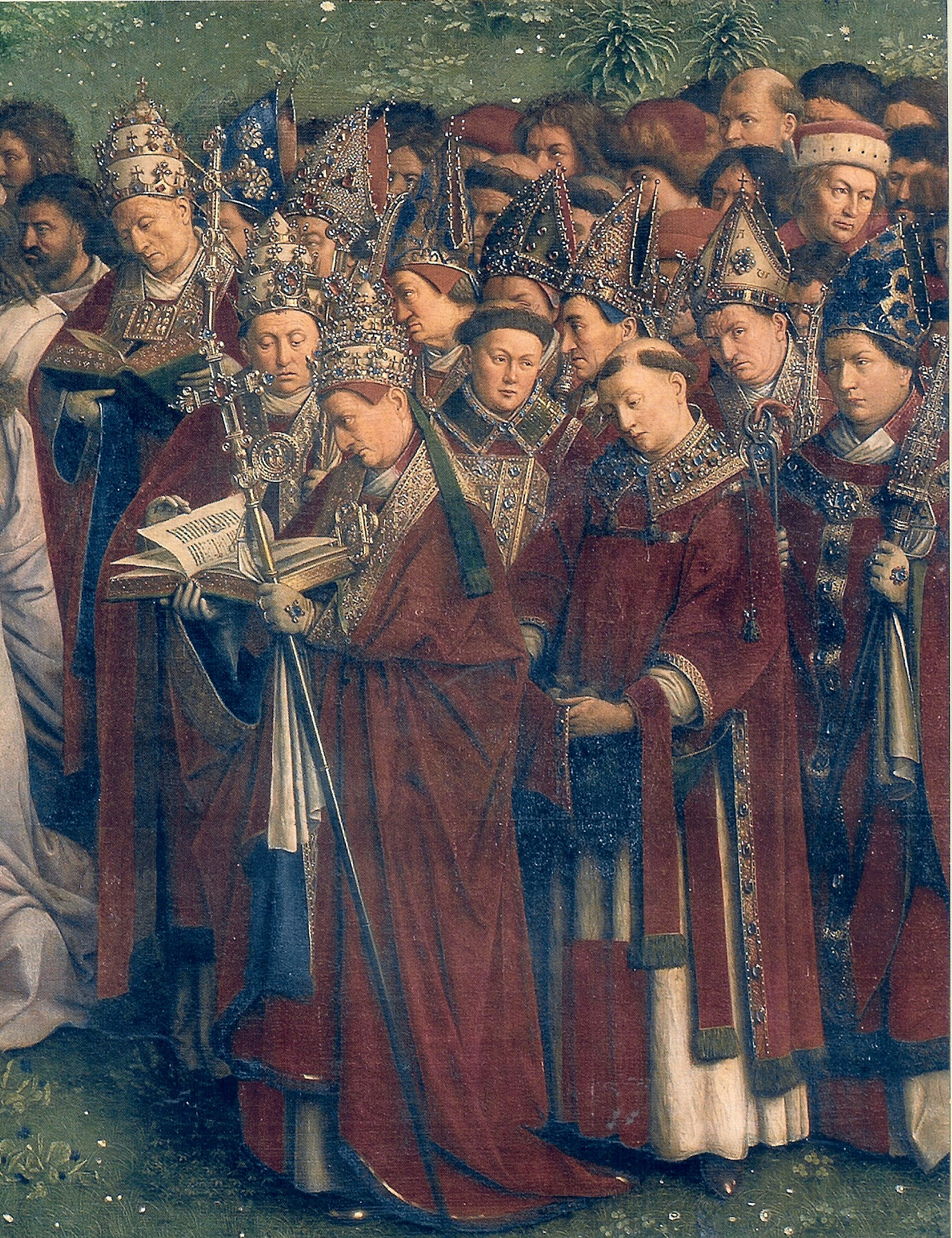 detail: popes and bishops